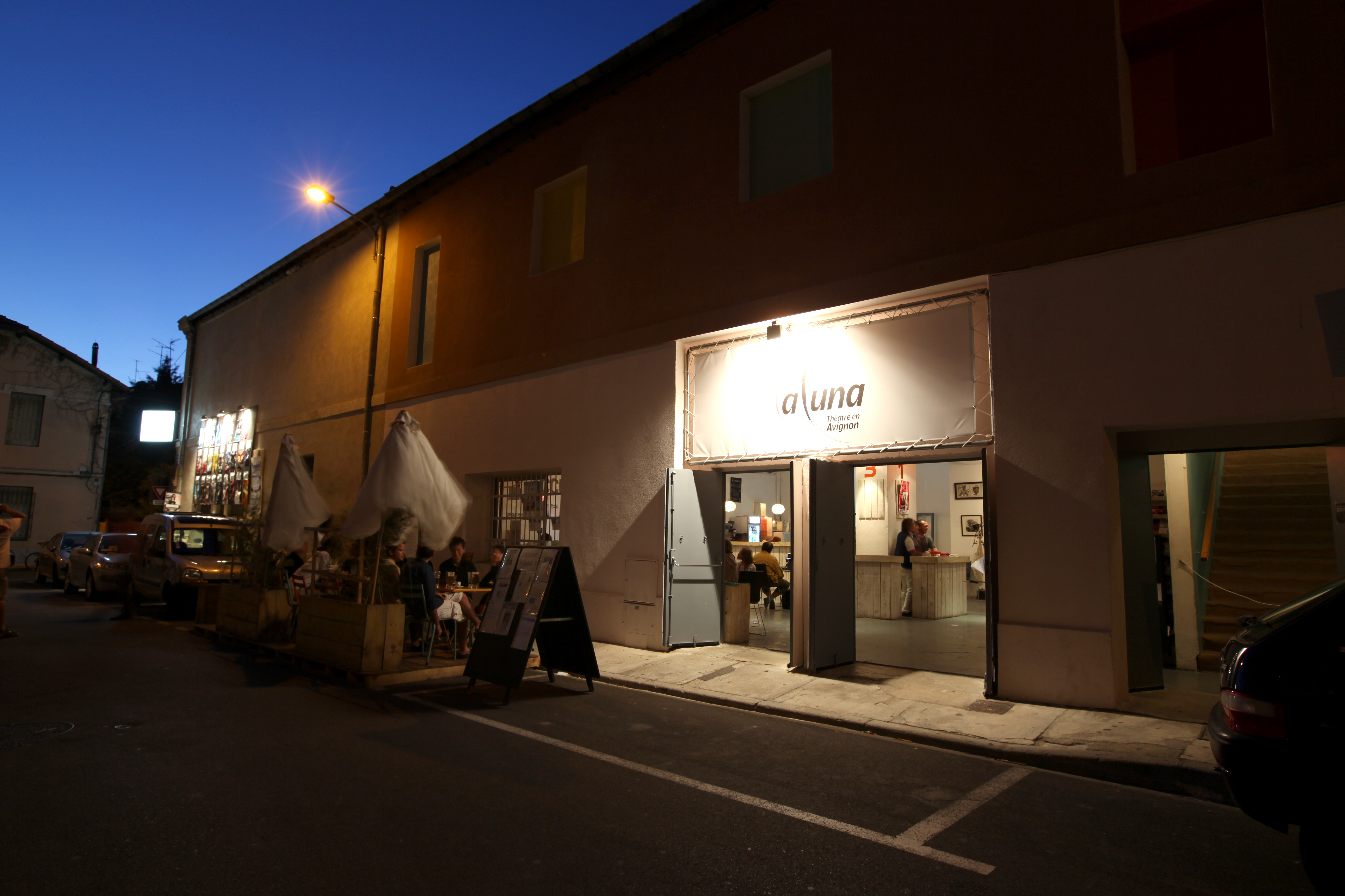 Façade du Théâtre La Luna